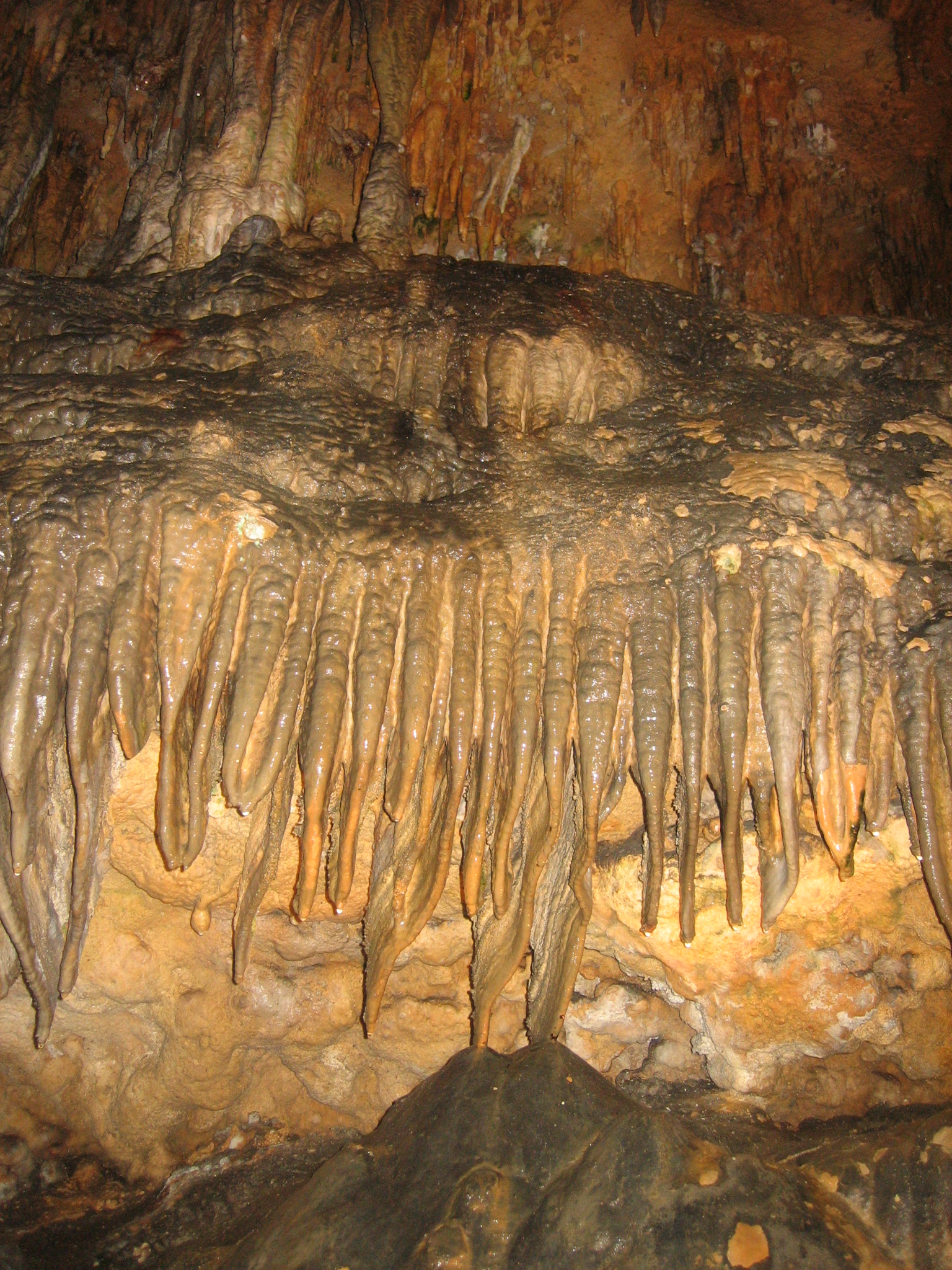 Luray Caverns "Fishmarket"